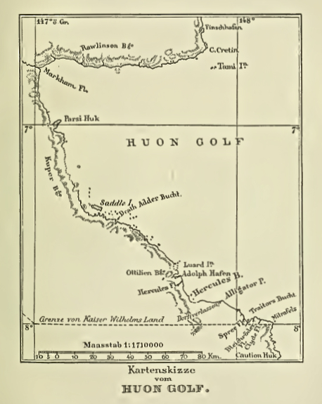 Map of Huon Gulf , from a 1884 - 1885 book by Otto Finsch, accessed via the World Digital Library